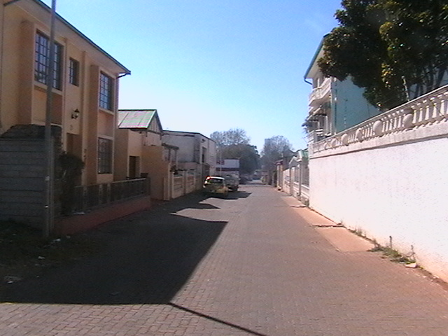 I took this photo of 14th Avenue in Vrededorp while exploring the area.